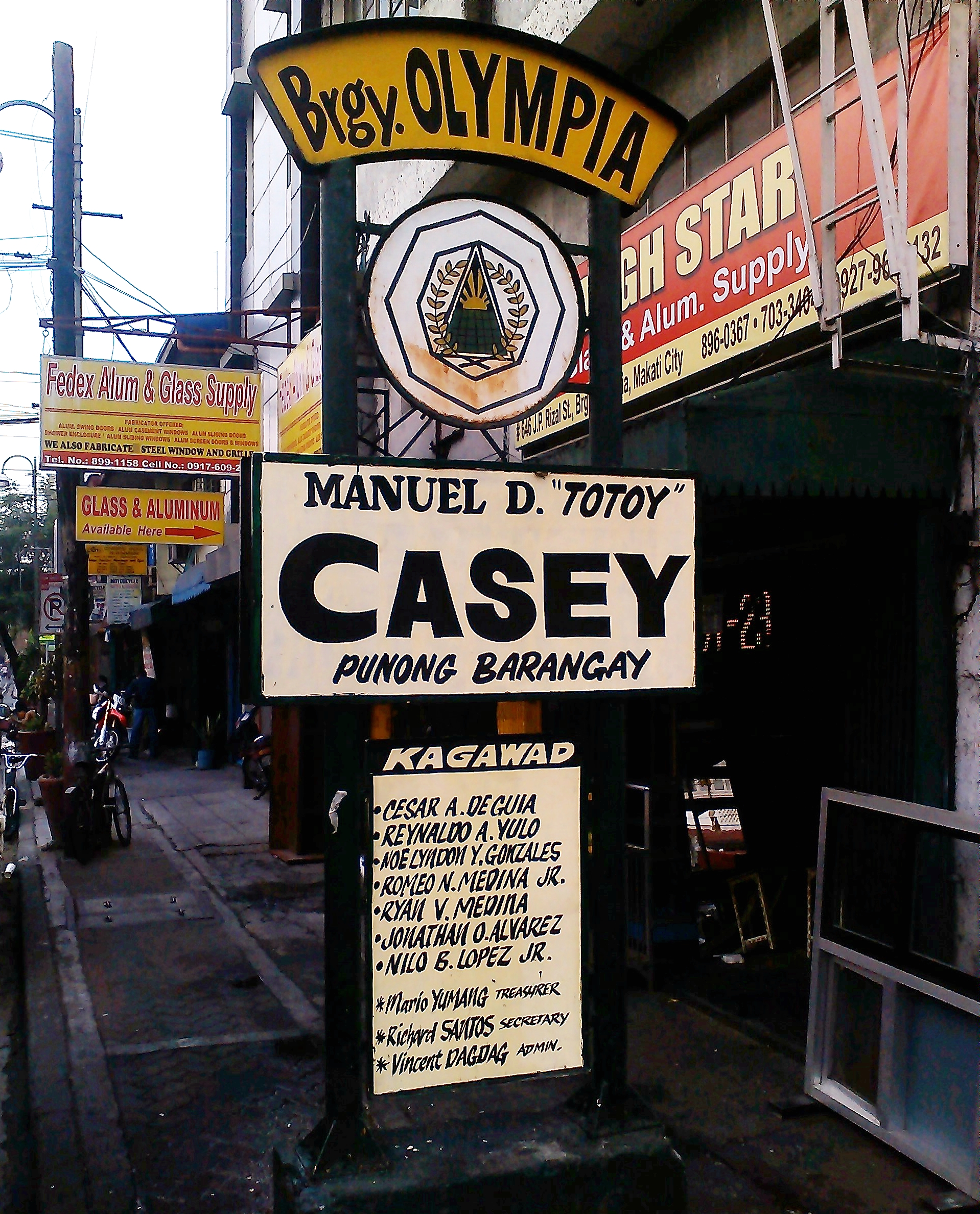 Sign of "Barangay Olympia", J. P. Rizal Street,Makati City (Metro Manila) Philippines